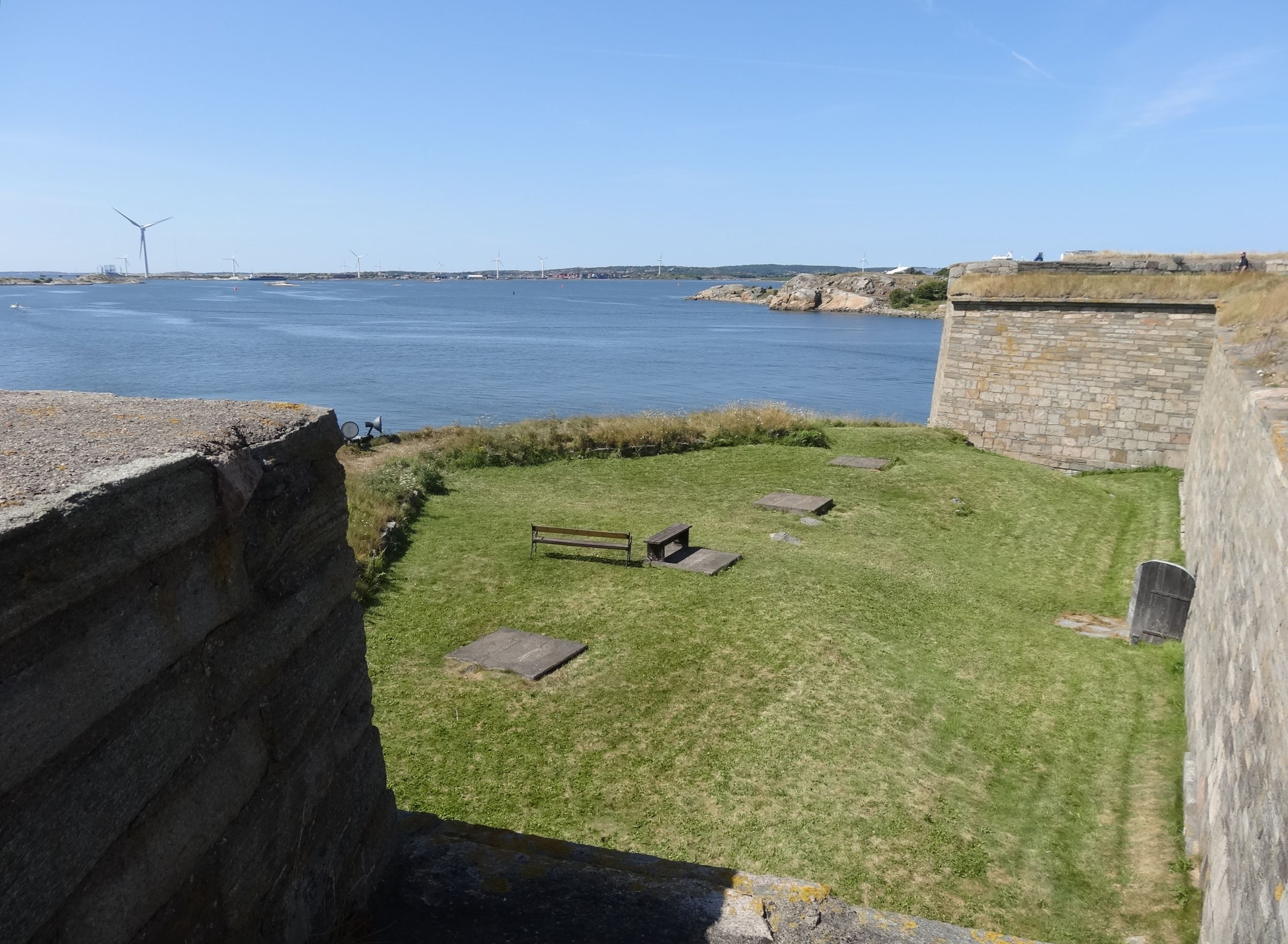 View from bastion Mermaid at fortress Nya Älvsborg in Gothenburg, Sweden towards northeast and bastion Whale.